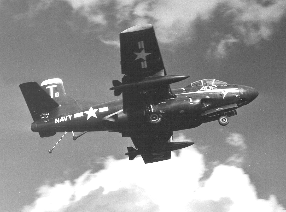 A Douglas F3D-2 Skyknight (BuNo 127072) of Fighter Squadron VF-14 Top Hatters, Air Task Group 201 (ATG-201), approaching the aircraft carrier USS Intrepid (CVA-11) during operations in the Western Atlantic between September and November 1954.